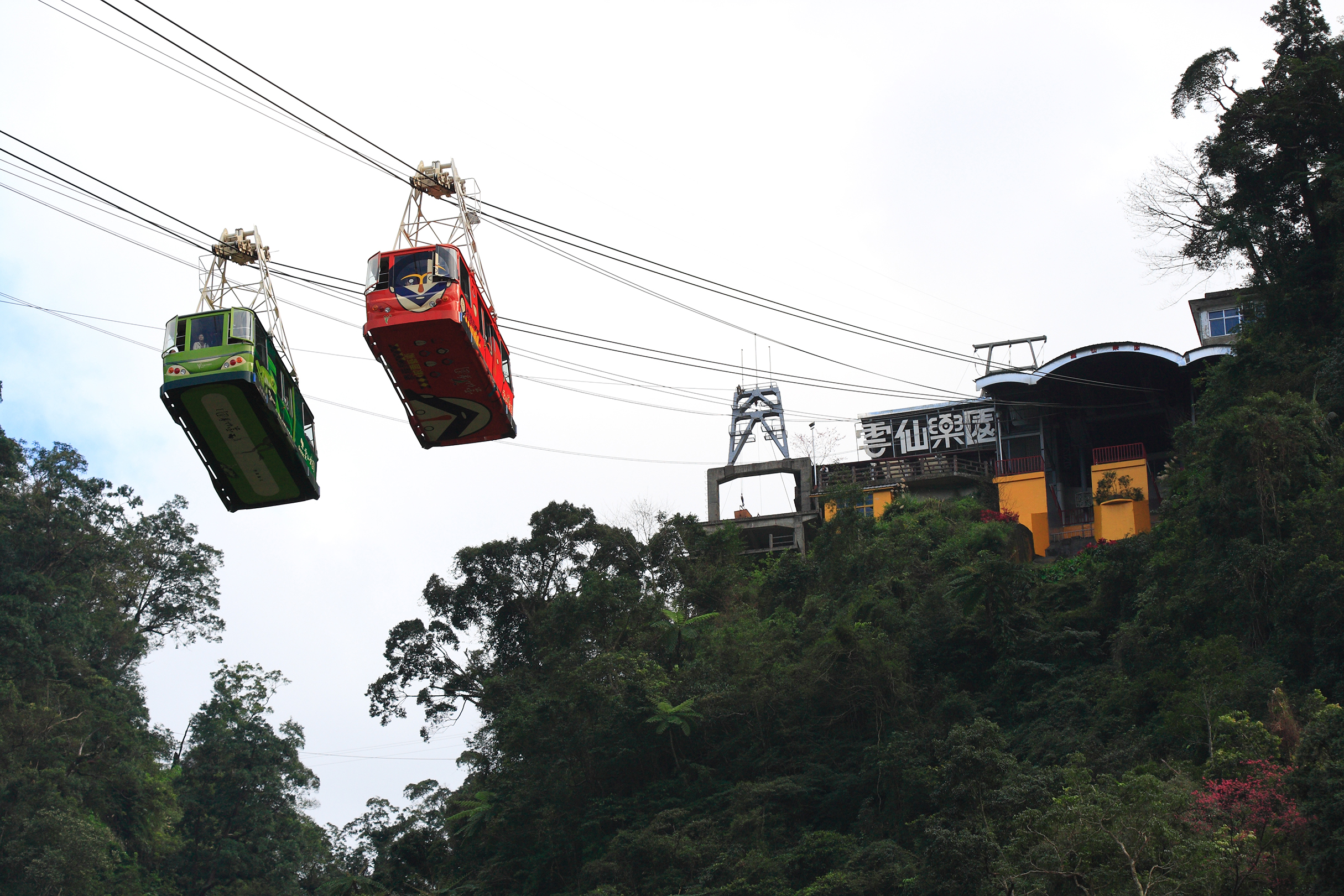 Ulai Aerial tramway to Yun Hsien Resort